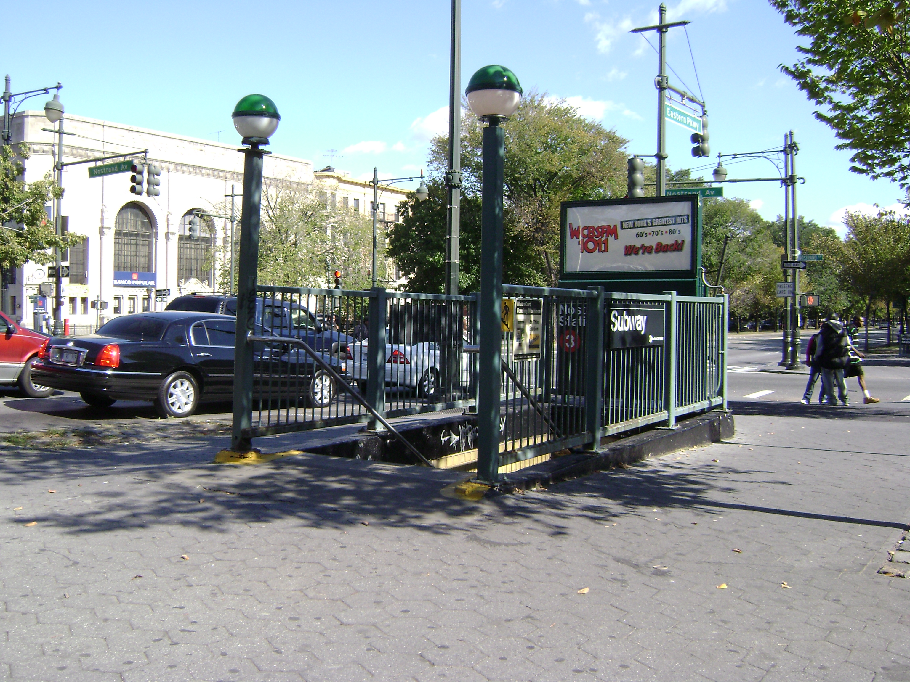 The entrance into the Nostrand Avenue subway station.